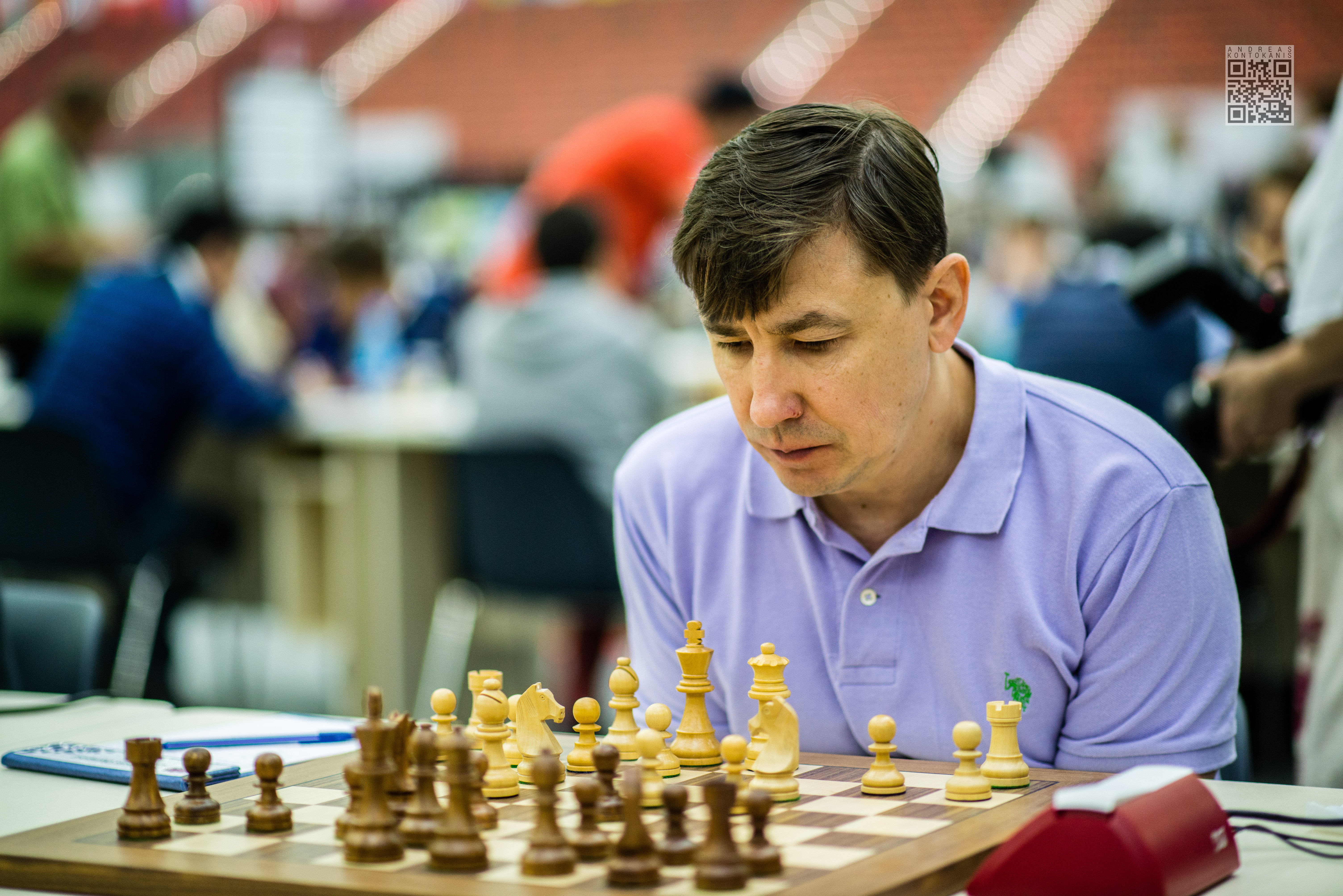 Bareev Evgeny